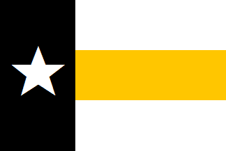 Flag of the fictional Republic of San Marcos, in Woody Allen's 1971 film Bananas.